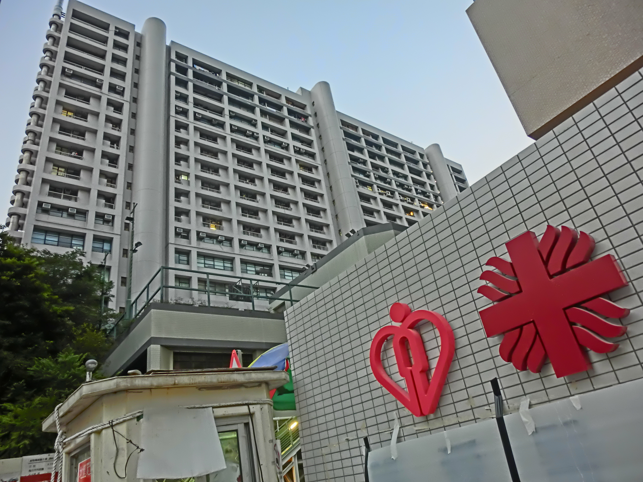 長沙灣 明愛醫院, Caritas Medical Centre, Cheung Sha Wan, Hong Kong